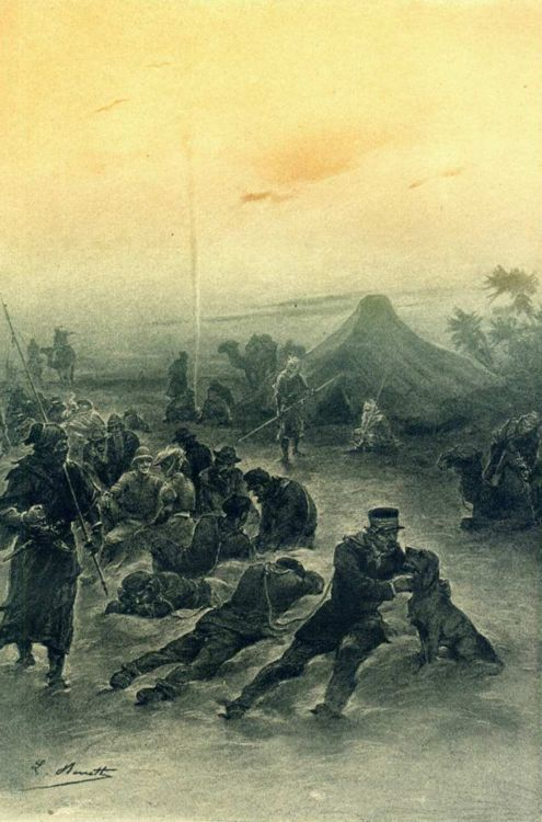 An illustration from Jules Verne's (or Michel Verne's) novel "The Thompson Agency and Co" drawn by Léon Benett.